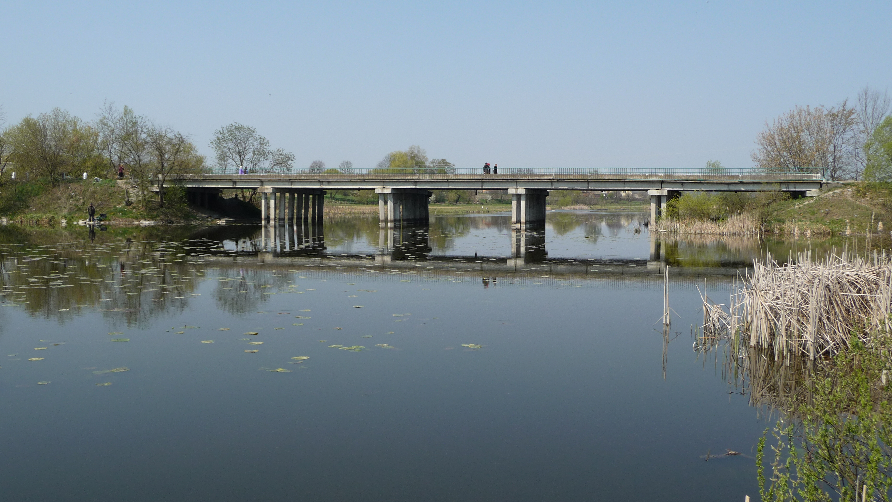 The Desna river, feeder of the Southern Bug, in Ukraine. Bridge in Sosonka village. Total length of the Desna river is 80 km, basin area 1400 km².